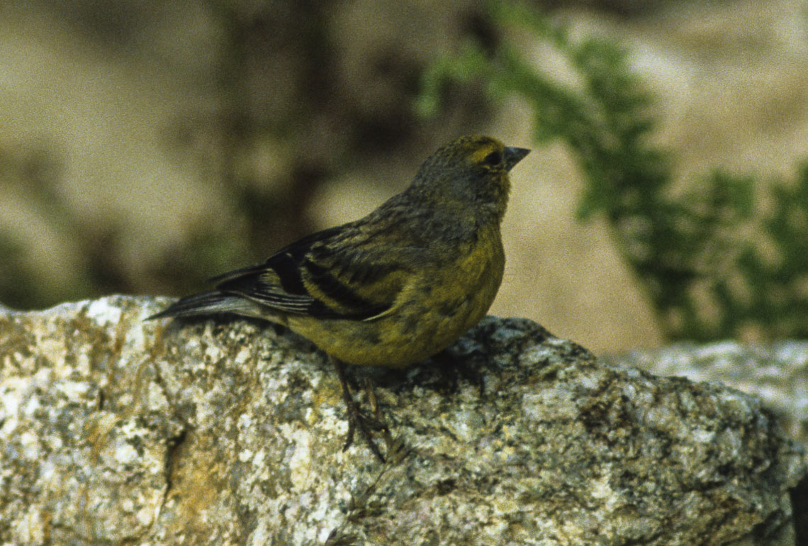 Corsican Finch - Corsica - France_332